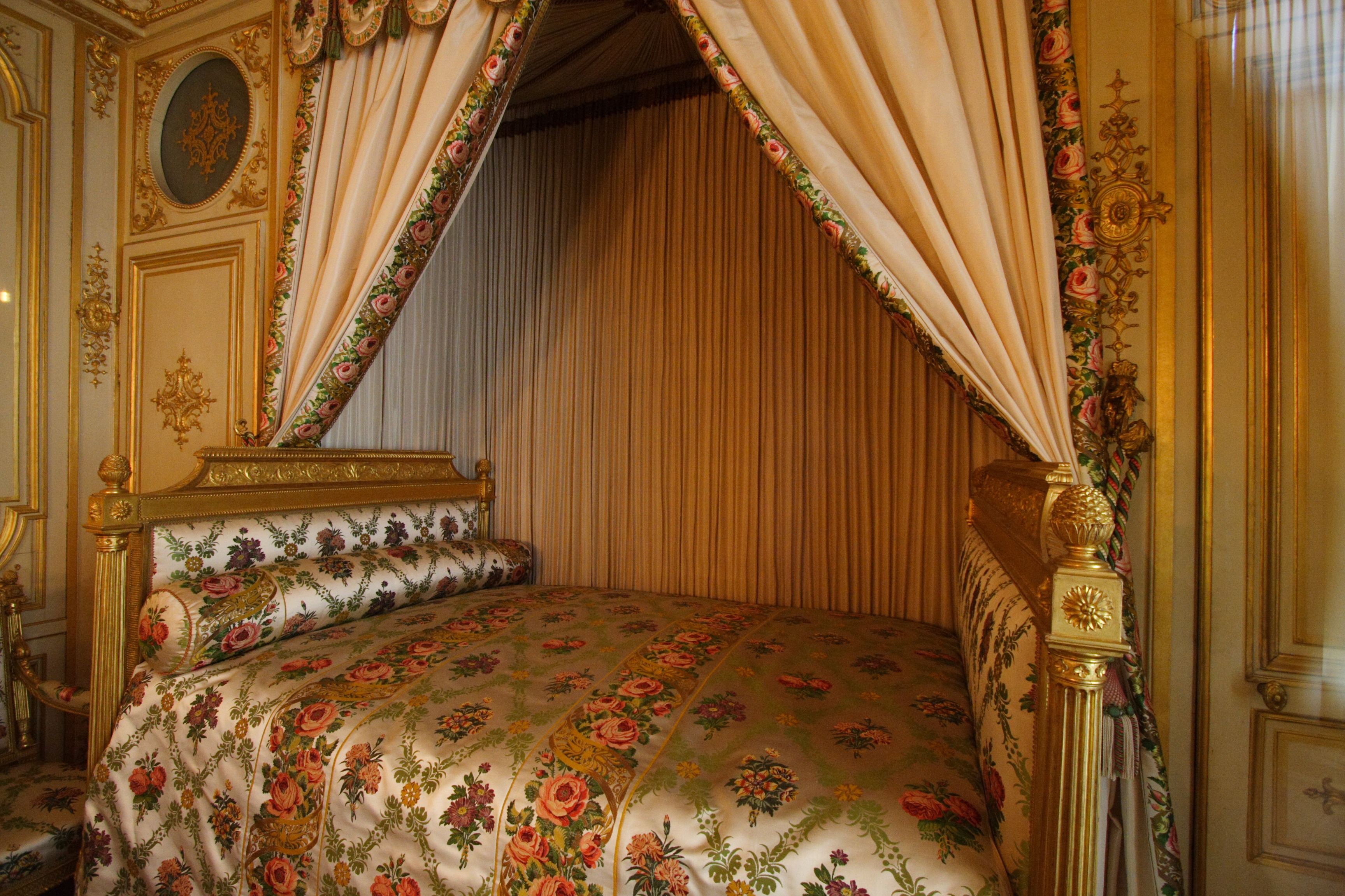 Bedroom of Madame de Maintenon in the Palace of Fontainebleau